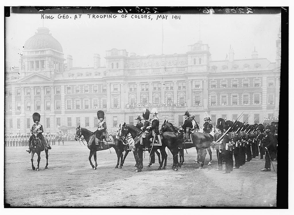 Bain News Service,, publisher. King Geo. at Trooping of Colors, May 1911 1911 May (date created or published later by Bain) 1 negative : glass ; 5 x 7 in. or smaller. Notes: Title from data provided by the Bain News Service on the negative. Photograph shows King George V Trooping the Colour, for the first time in May 1911 in front of the Admiralty Extension Building. Both the King and the Duke of Connaught wore the uniform of the Grenadier Guards. The Maharaja of Bikaner also attended. (Source: Flickr Commons project, 2009, 2012) Forms part of: George Grantham Bain Collection (Library of Congress). Format: Glass negatives. Repository: Library of Congress, Prints and Photographs Division, Washington, D.C. 20540 USA, General information about the Bain Collection is available at Higher resolution image is available (Persistent URL): Call Number: LC-B2- 2208-16